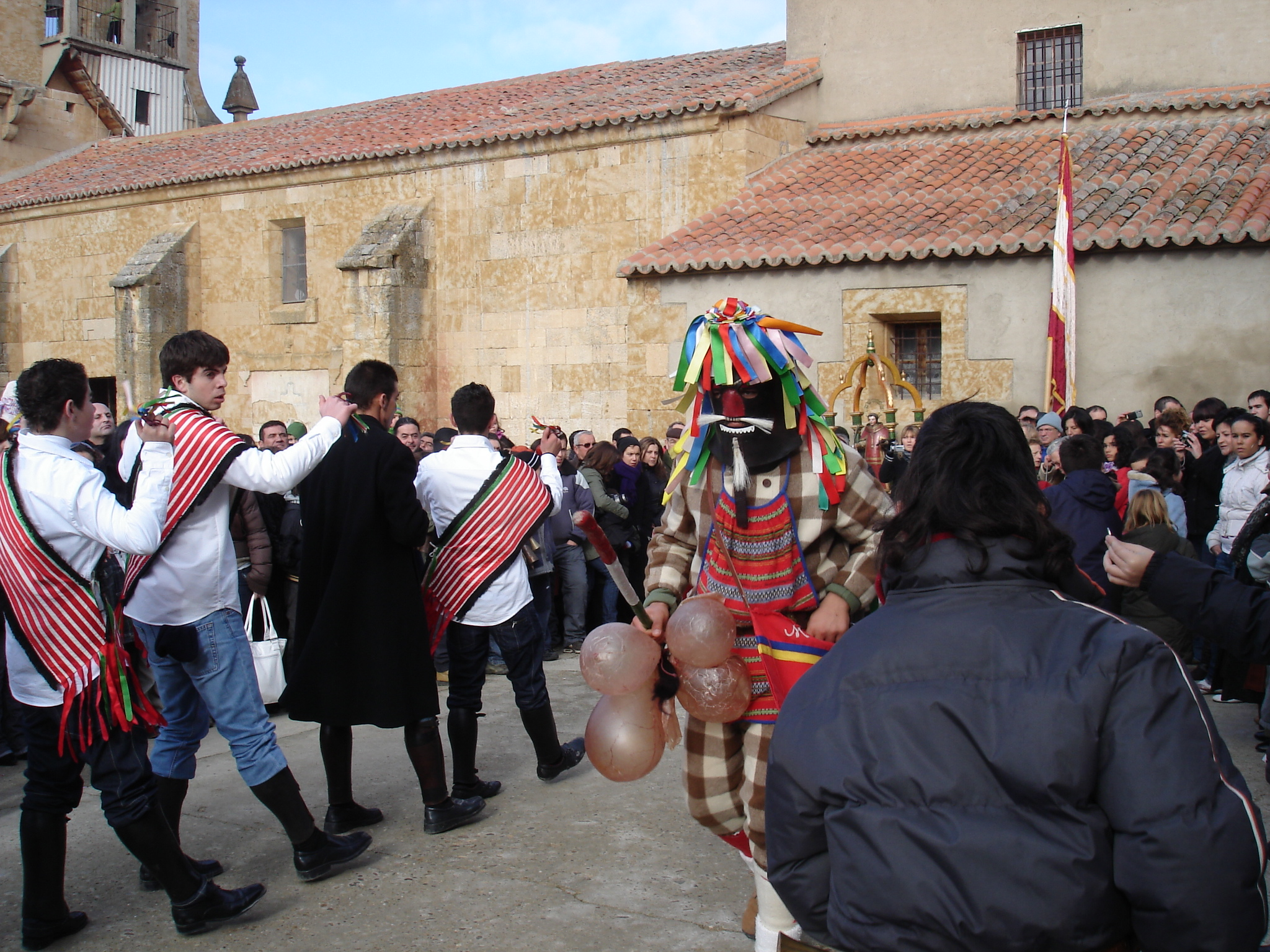 El Zangarrón is a traditional folk festival in the town of Sanzoles, Zamora, Spain. It is celebrated on December 26. The Zangarrón is a traditional figure that according to legend defended the image of San Esteban when the locals wanted to stone him for not doing a rain miracle. Currently, the conscripts dance in front of the image of San Esteban while the Zangarrón runs between the rows of dancers to prevent the spectators from interrupting them; he also runs behind people who show him money to take it away. This photo has been taken in the country: Spain